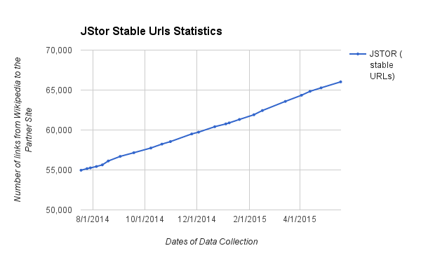 The number of links from En-WP to JSTOR using the Special:LinkSearch